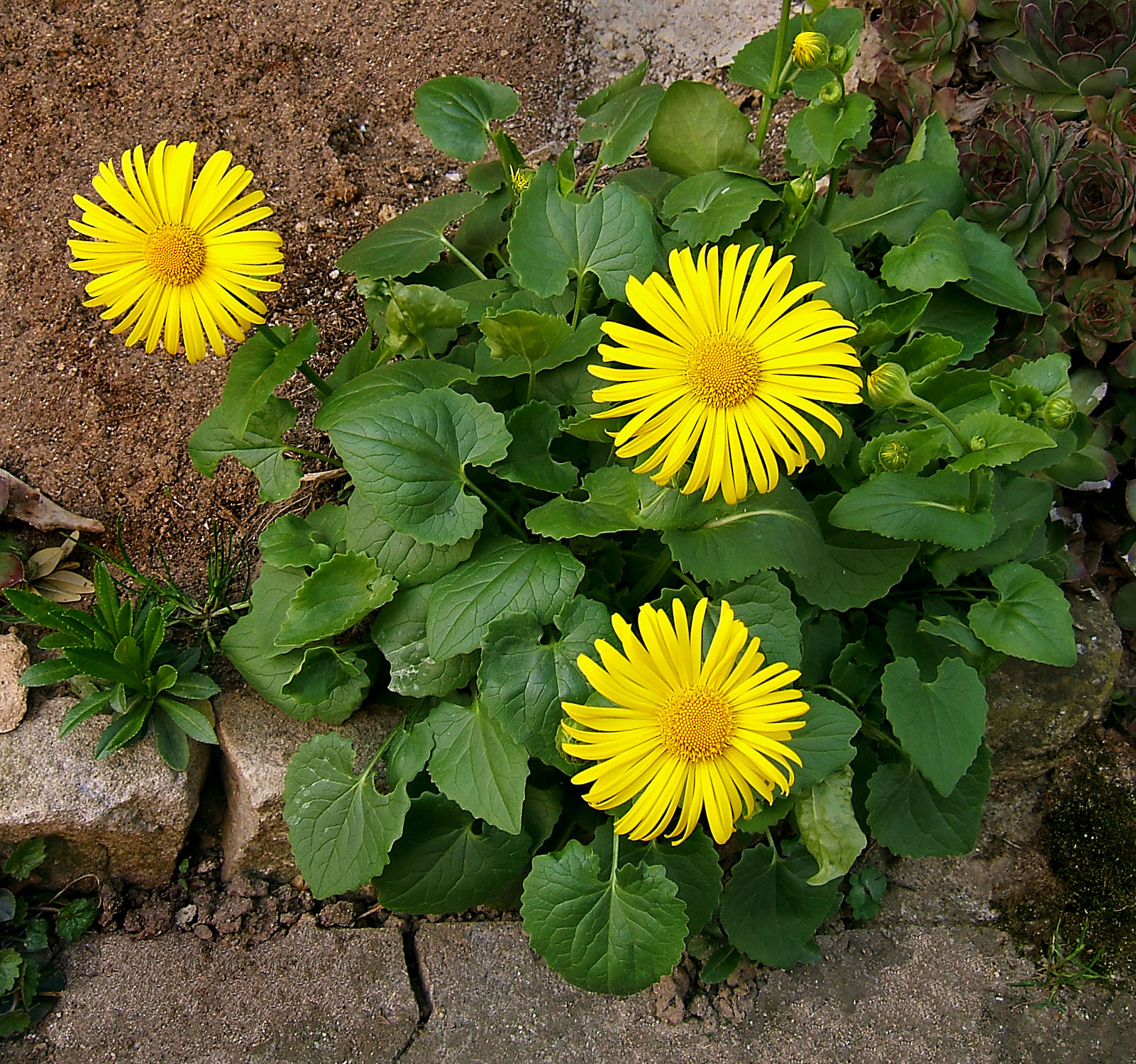 Leopard's Bane